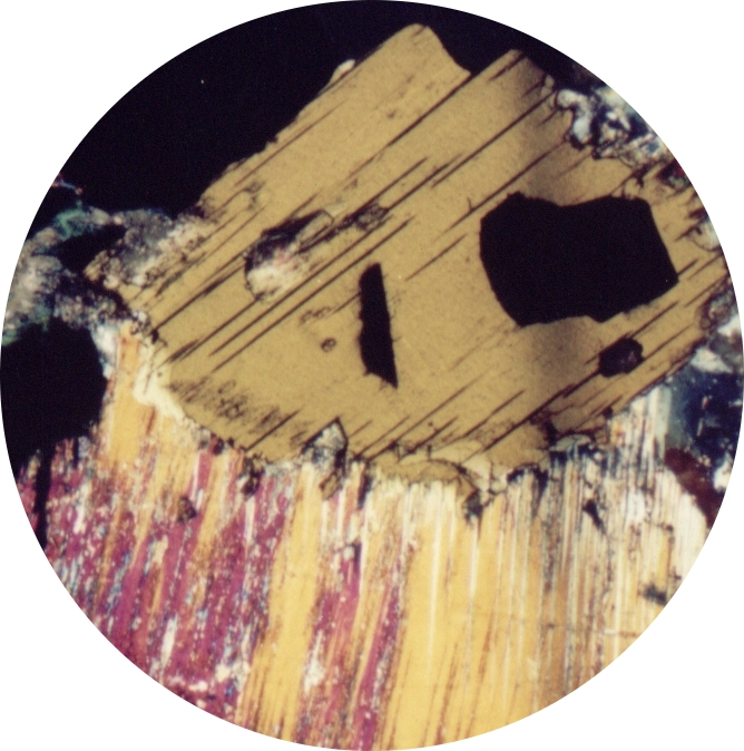 Polarizing microscope picture of thin section taken in crossed polarized light. The green mineral is biotite and the coloured one is muscovite. The black inclusion in biotite is magnetite. Rock:Nepheline syenite gneiss Local:Rio de Janeiro, Brazil Author:Eurico Zimbres Free for all use Date: 1990